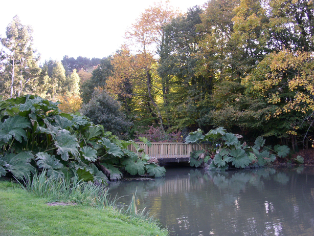 A picture I made in 2004 in the Stangalar parc in Brest, a city on the west coast in France.